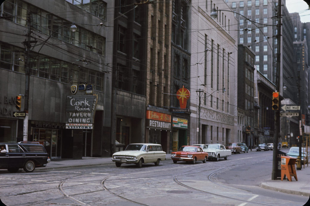 Automobiles headed south on Bay Street, at Wellington Street West, in Toronto, Ontario, Canada. The Toronto Stock Exchange and Bank of Toronto Building are visible on the west side of Bay Street.